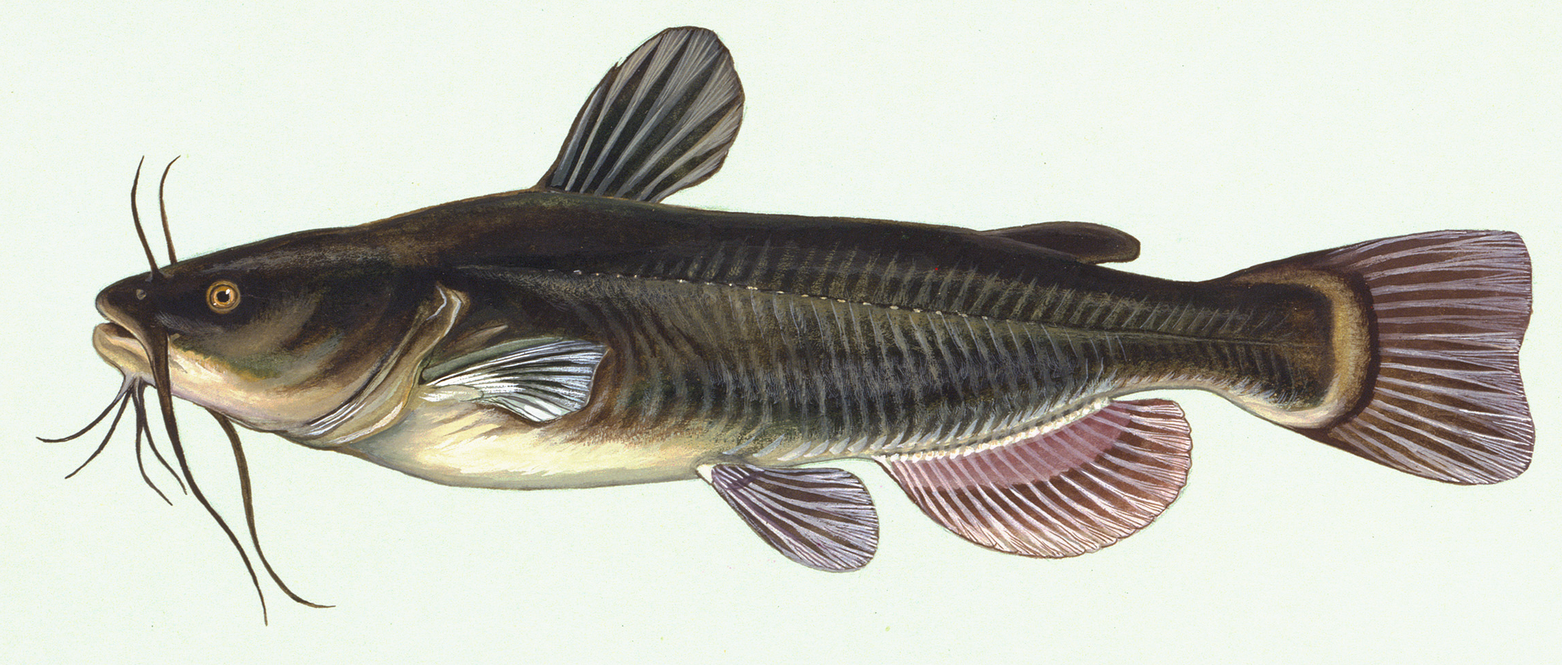 Drawing of a Black Bullhead (Ameiurus melas).